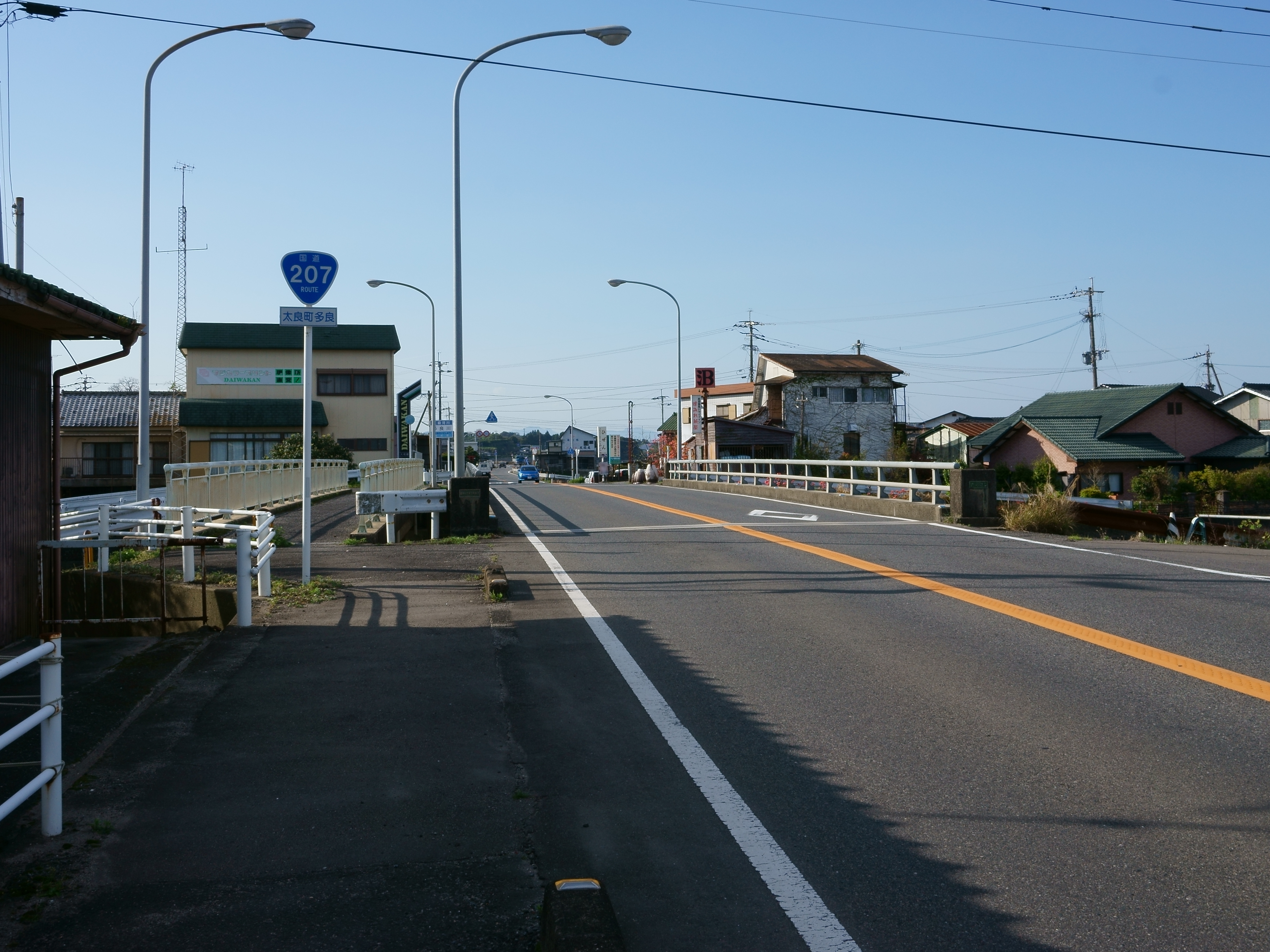 Japan National Route 207 in Tara, Tara town, Saga prefecture.